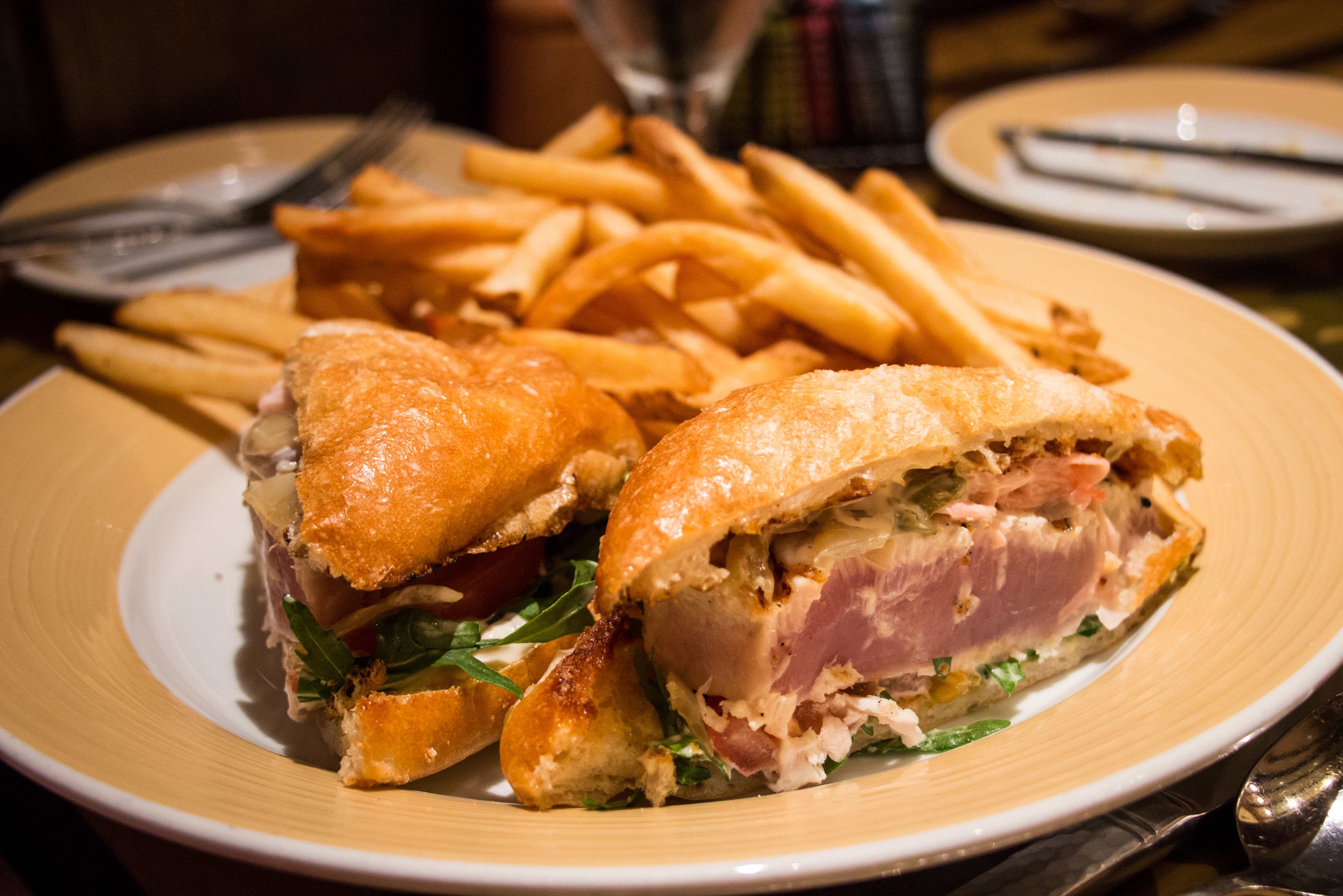 Michelle's entree at Storyteller's Cafe: Grilled Albacore Tuna (Rare) - Lightly seasoned with a zesty Lemon-Caper Mayonnaise, topped with fresh Arugula, Tomato, Caramelized Onions, and Pickled Ginger served with French Fries.